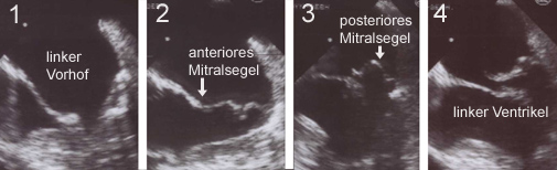 legend for transesophageal echocardiogram of mitral valve prolapse